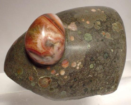 Thomsonite-Ca Locality: Thomsonite Beach, Grand Marais, Cook County, Minnesota, USA (Locality at ) A STRIKING buffed specimen of a 1.6 cm, banded, birds-eye, thomsonite-lintonite nodule nicely set in amygdaloidal matrix from the Grand Marais on the North Shore of Lake Superior, Minnesota. Thomsonite and lintonite are zeolites. Ex Richard Hauck Collection. 4.4 x 3.0 x 2.4 cm